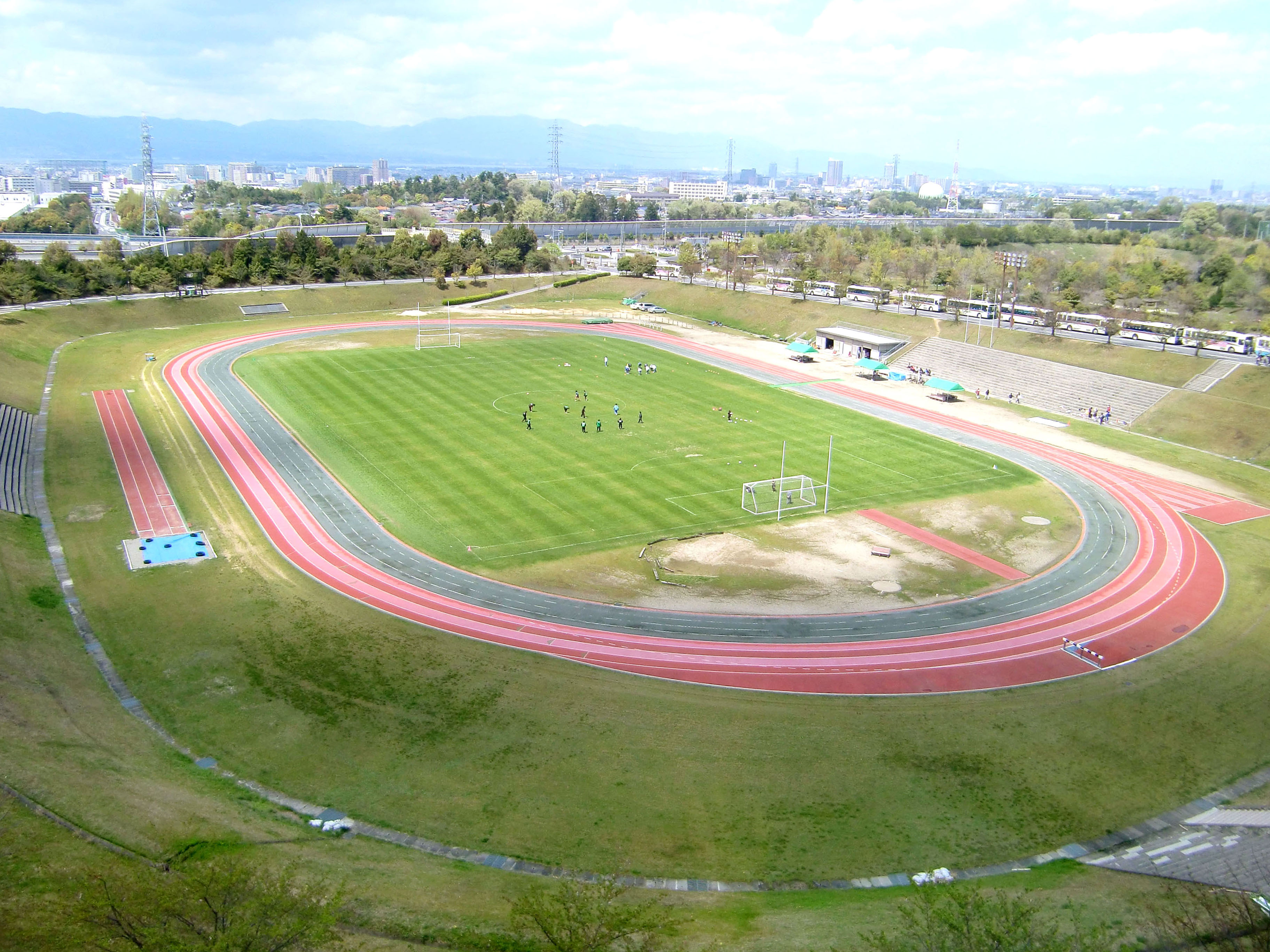 Quince Stadium (Ritsumeikan University Biwako Kusatsu Campus), 1-1-1 Nojihigashi Kusatsu-City Shiga JAPAN.